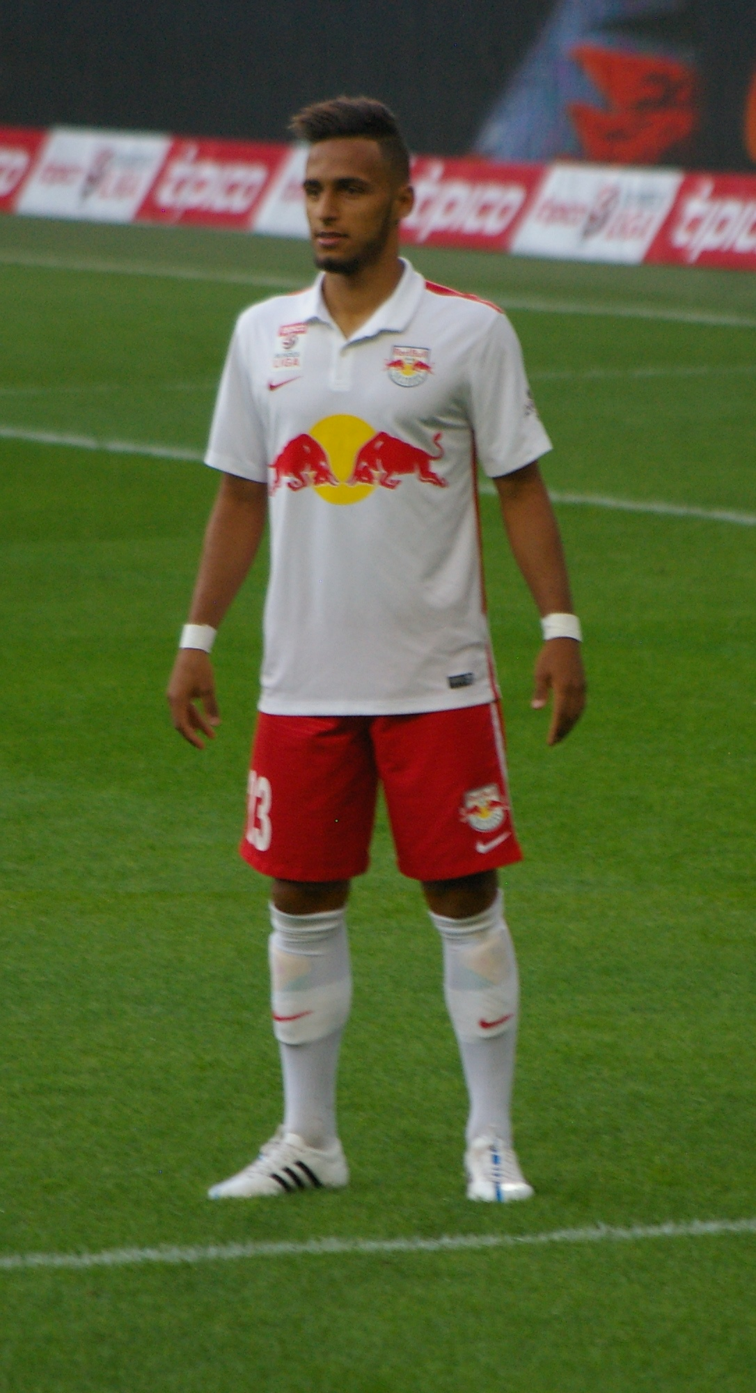 league match Austrian Bundesliga